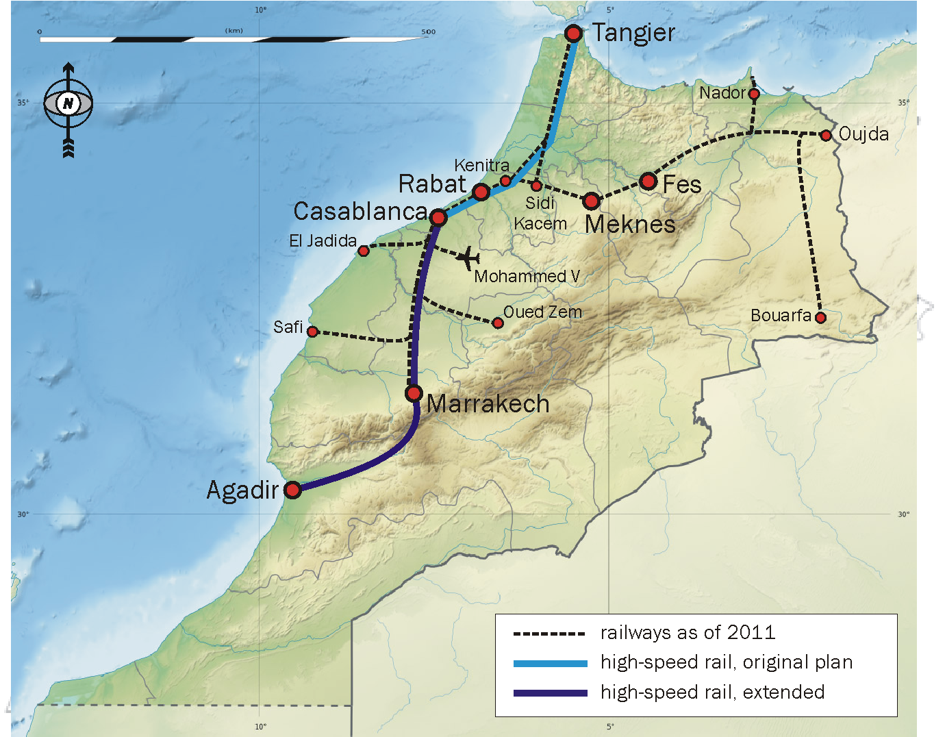 Railways of Morocco, as of mid-2010. Background map is Morocco_relief_location_map.jpg; data are taken from Maroc-railnet.png and Schienenverkehr in Marokko.